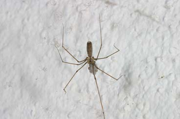 female Pholcus okinawaensis from Okinawa.